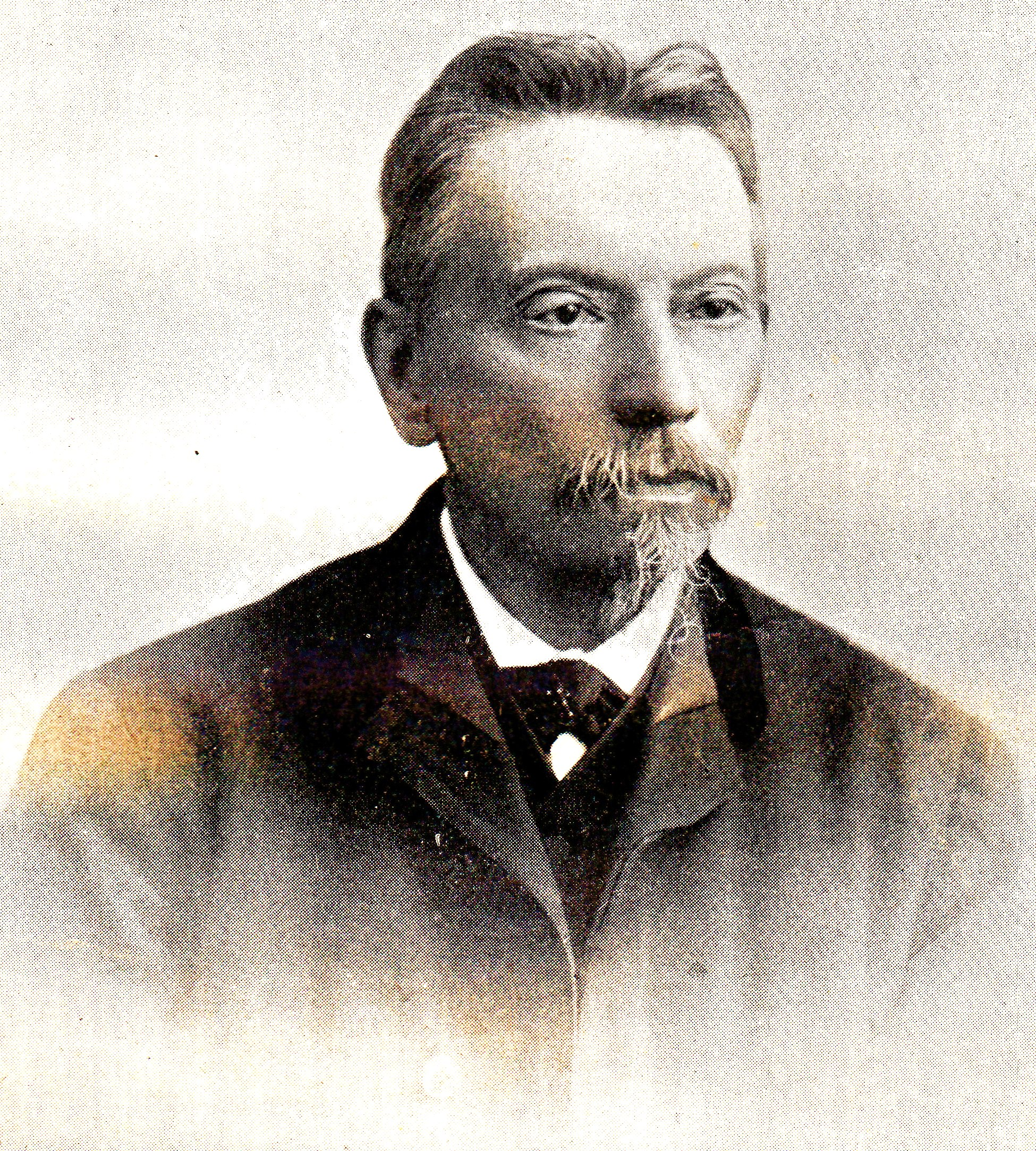 Arnold Leopold Hendrik Ising (1824-1898)